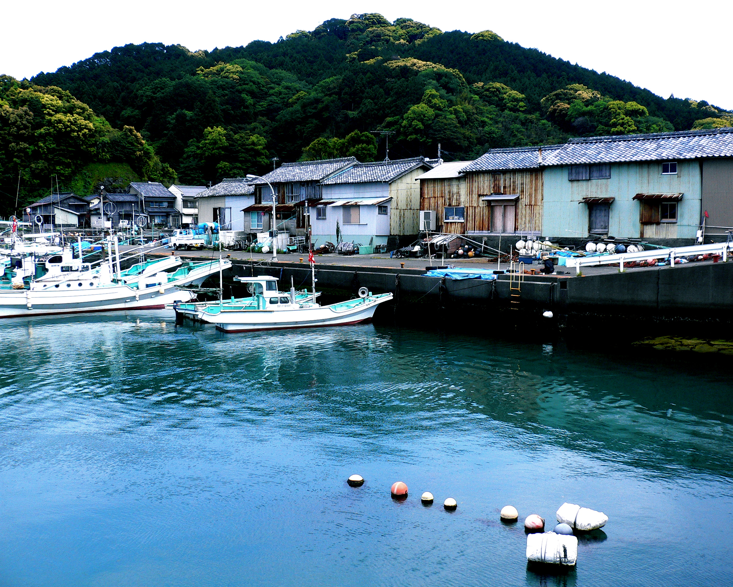 Kaifu port in Kaiyō, Tokushima, Japan.